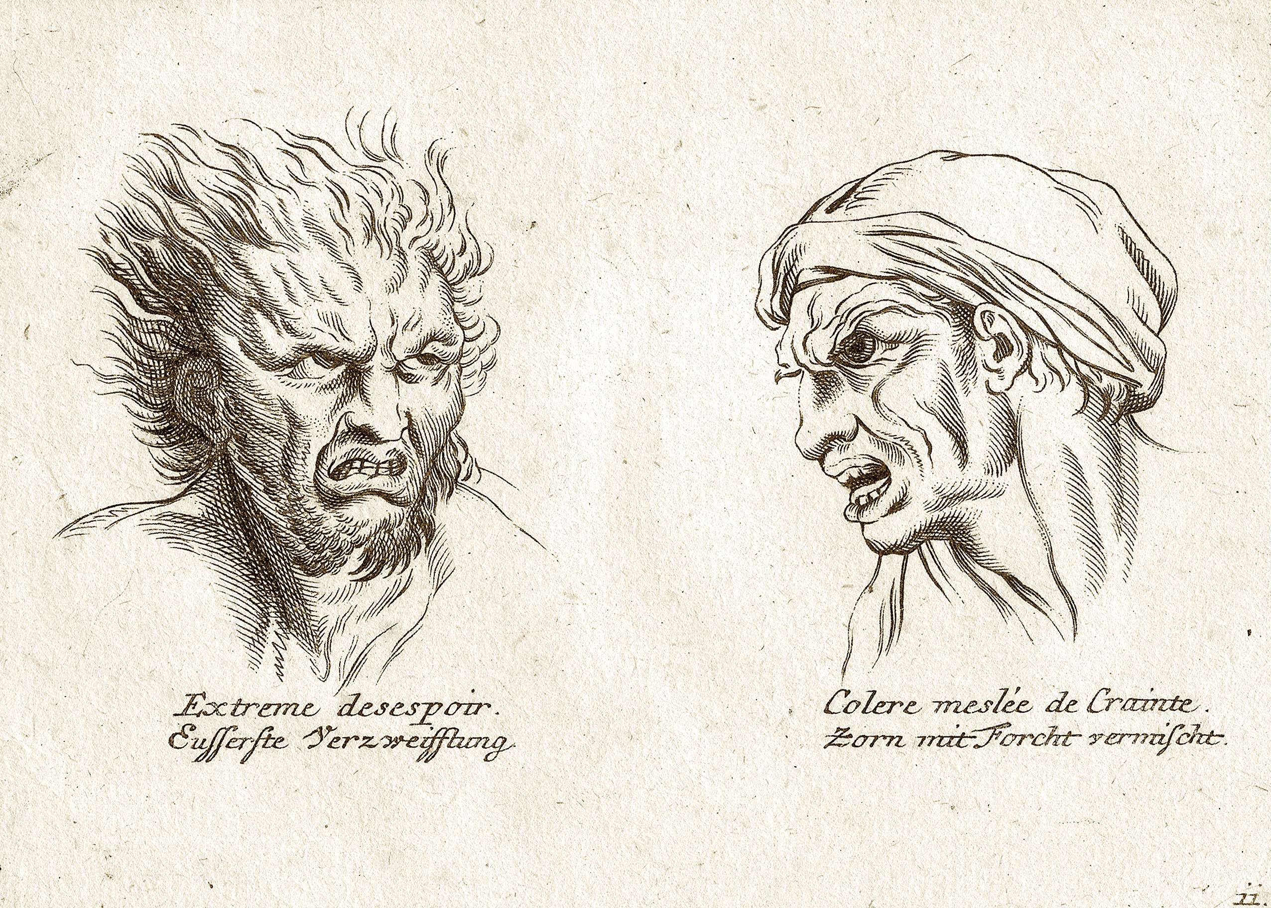 Typical illustration in a 19th century book about Physiognomy (on the left: "Utter despair", and on the right: "Anger mixed with fear")